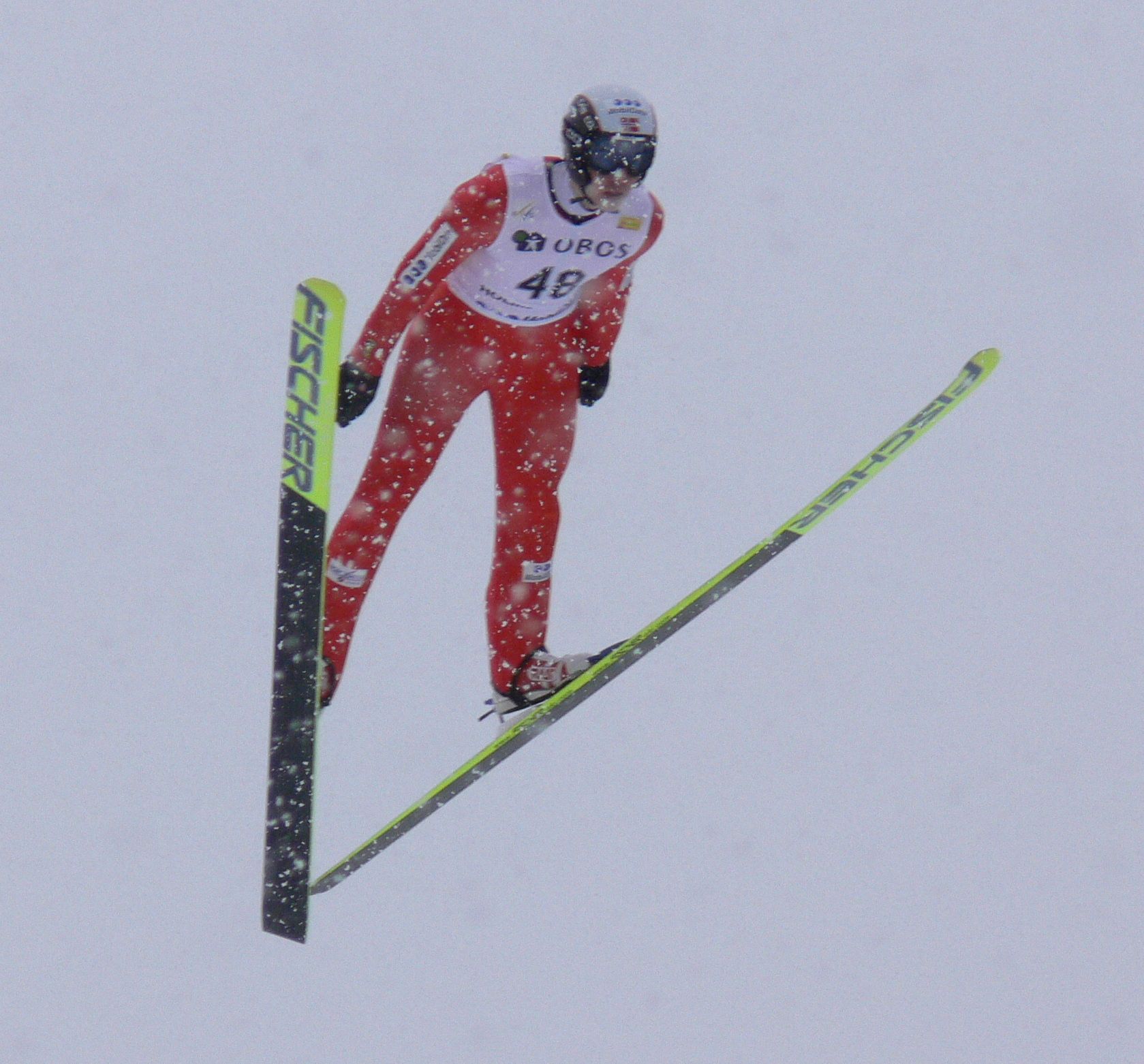 From a Nordic Combined World Cup event in Holmenkollen in 2006